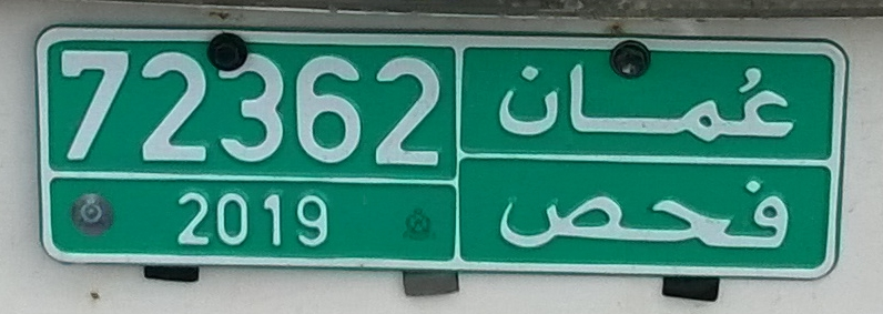 License plate in Oman, issued for car dealers